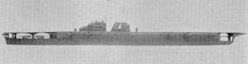 Wind tunnel model of plan G-8 of the Imperial Japanese, later plan changed and built "Soryu".